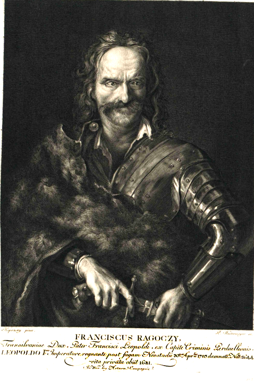 Francis I Rákóczi of Felsővadász (1645-1676), elected prince of Transylvania.